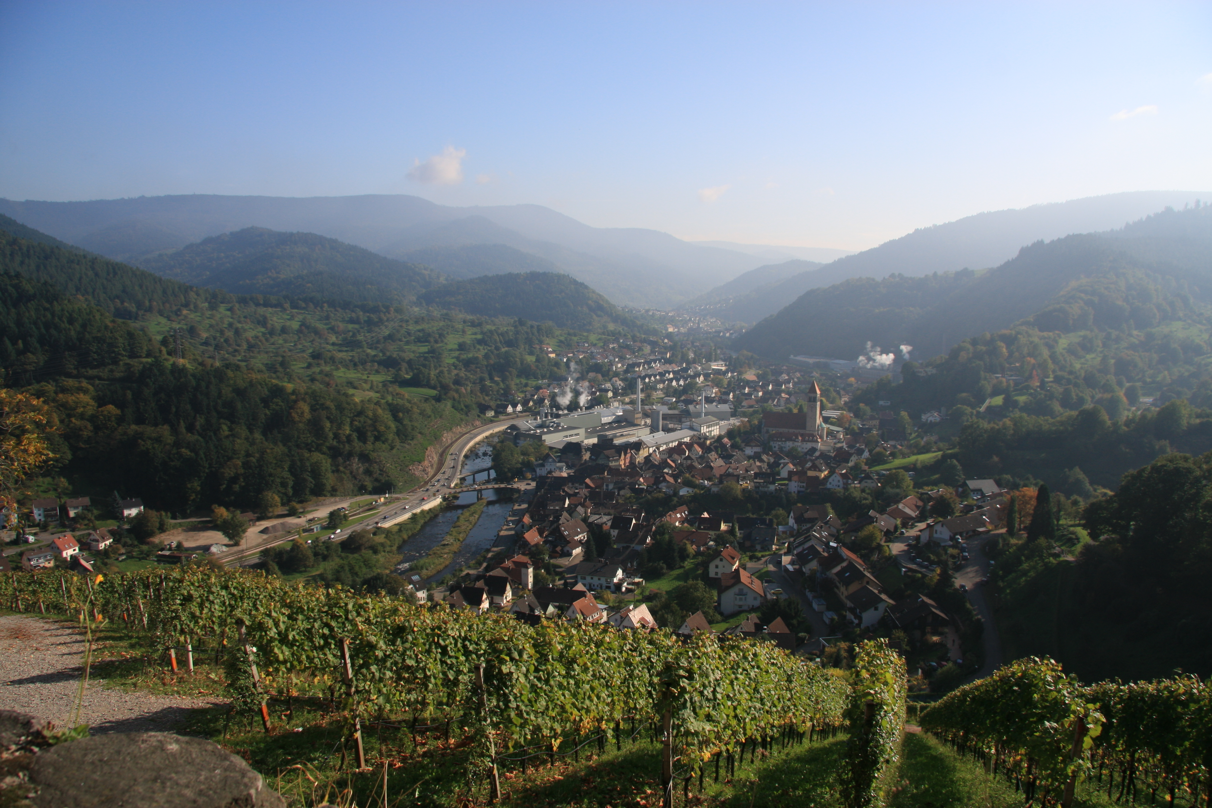 Gernsbach in the Black Forest: Obertsrot and the Murg valley seen from Eberstein castle.